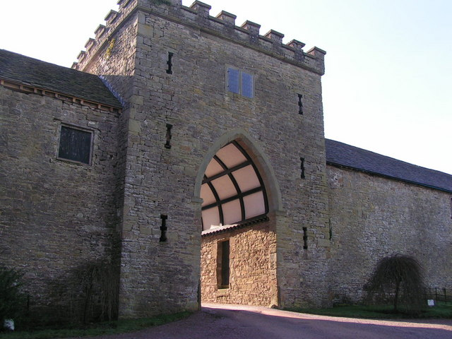 Gateway to Clearwell Castle Deep Purple took over this castle in Autumn 1973, to write their album Burn. In 1978, it was Led Zeppelin's turn to take it over, and other bands have followed. Whitesnake, Bad Company and Queen.